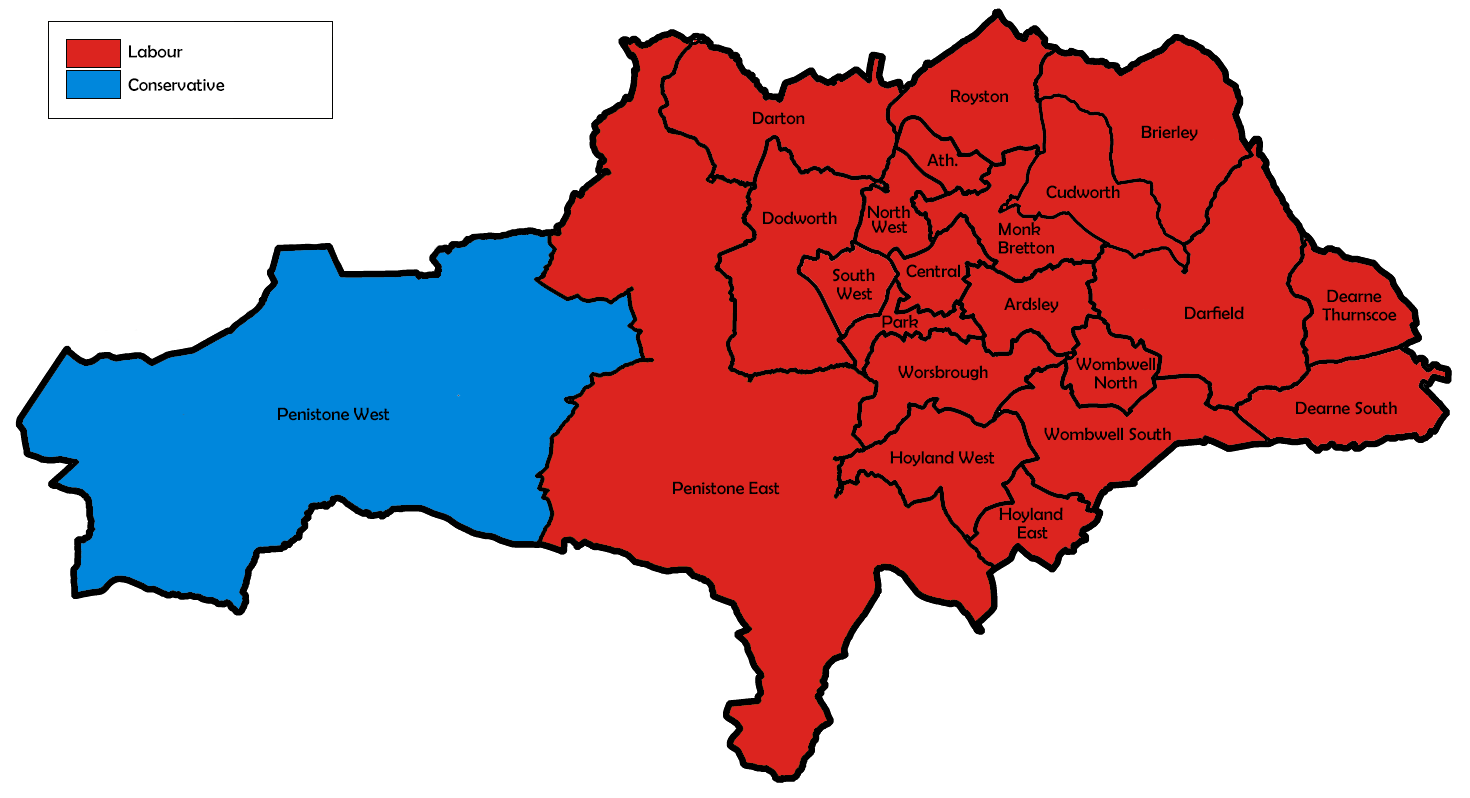 Ward map of Barnsley council with political colouring for the 1992 election.